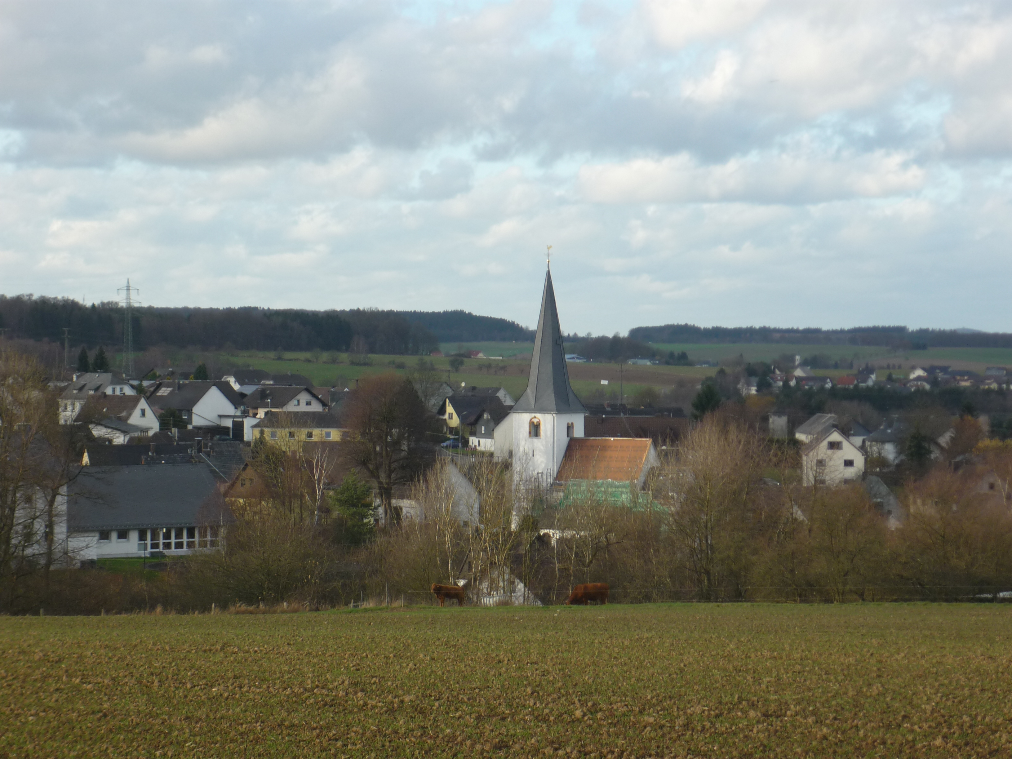 Church of Höchstenbach Westerwald